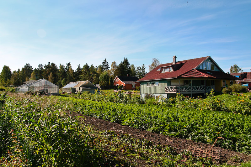 Vidaråsen Landsby, Andebu, Vestfold, Norway